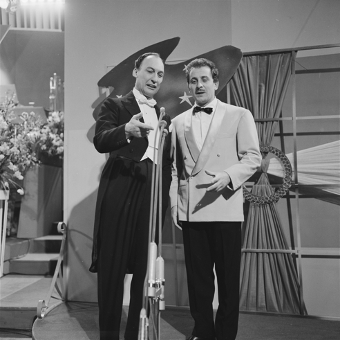 Conductor Alberto Semprini and singer Domenico Modugno at the 1958 Eurovision Song Contest in Hilversum